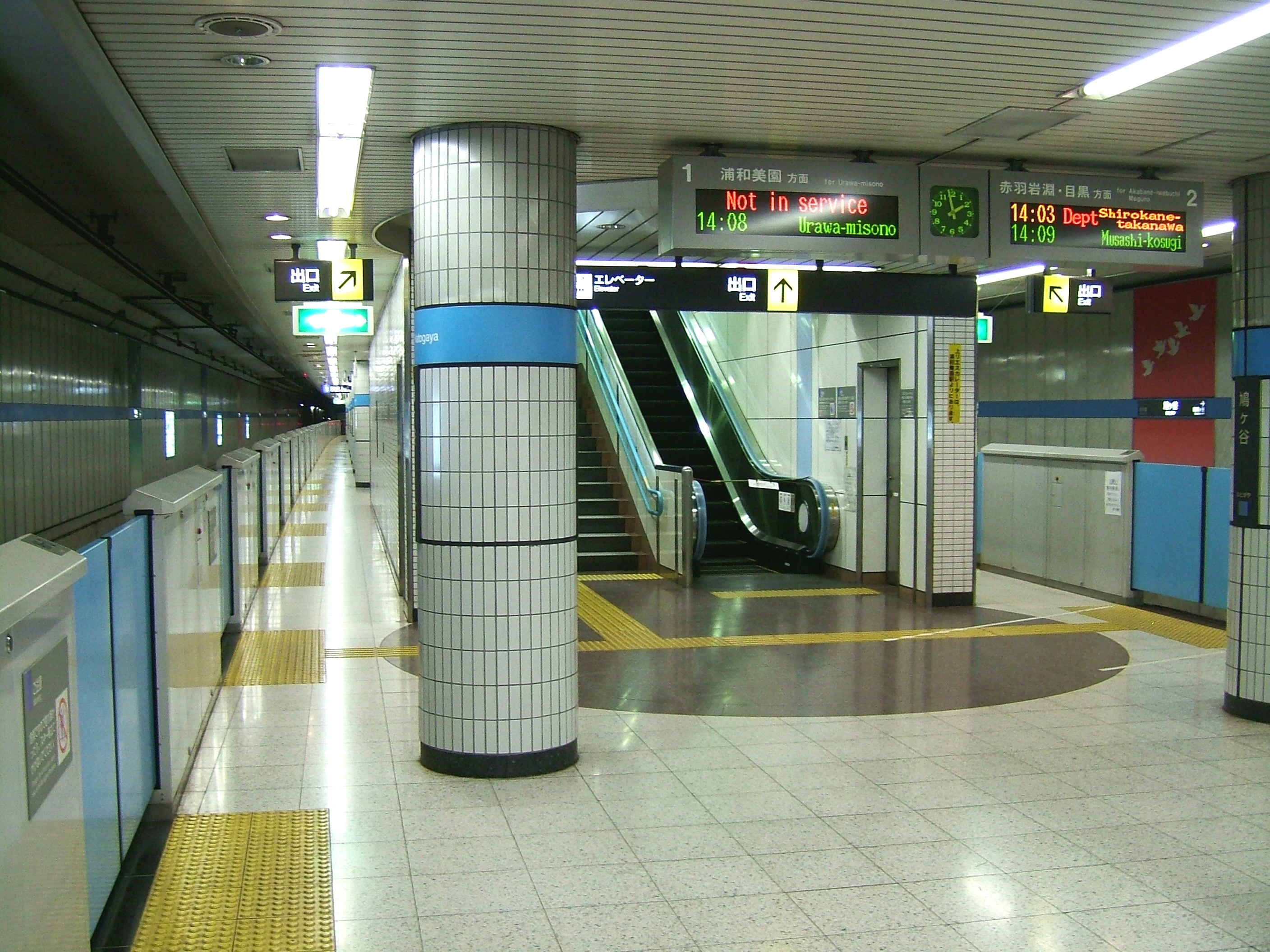 The platforms at Hatogaya Station on the Saitama Rapid Railway Line